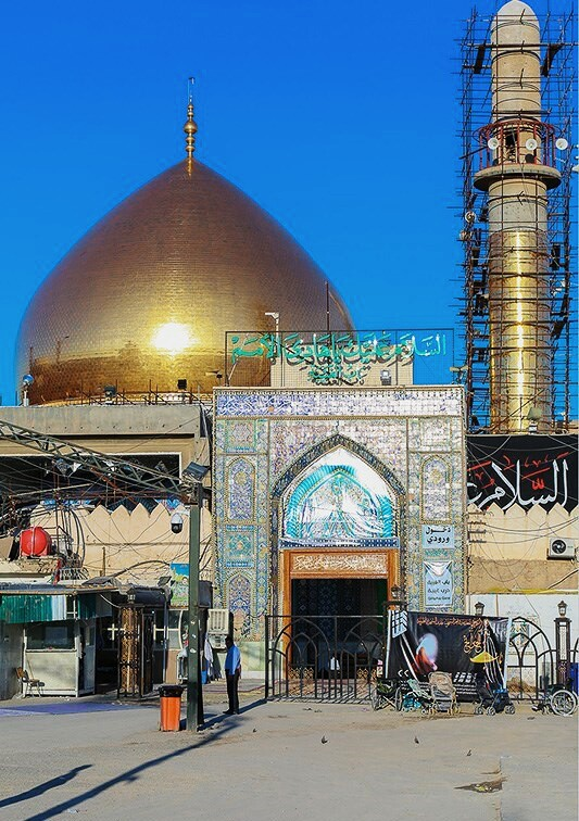 Al-Askari Mosque in Samarra City